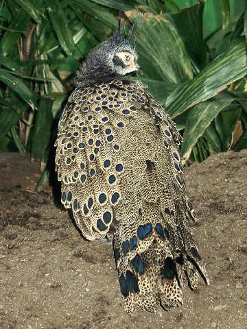 Description: Malayan Peacock Pheasant - Source: own work - Location: Bronx Zoo, New York - Author: self, User:Stavenn